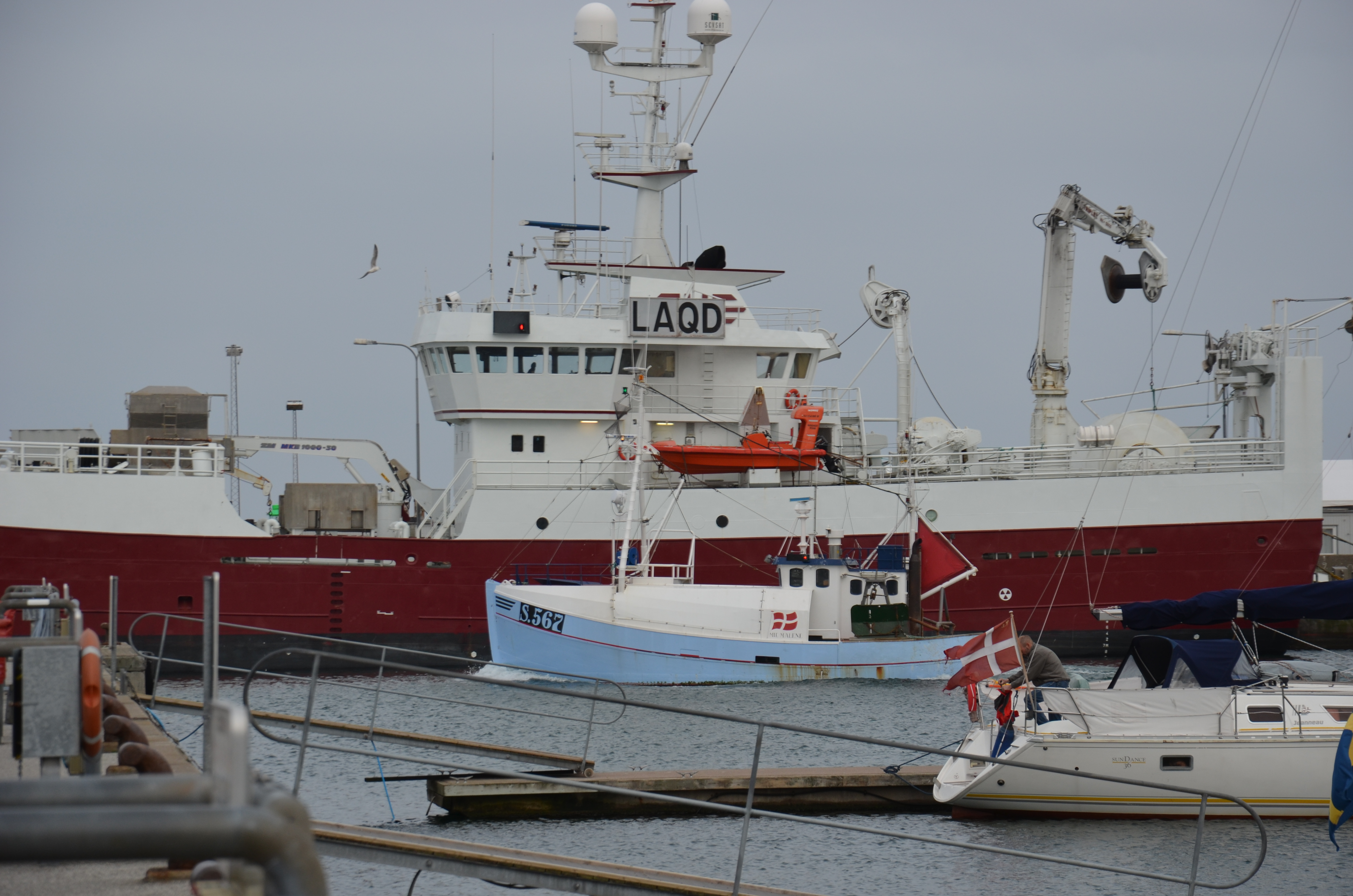 Fartyg Skagens hamn